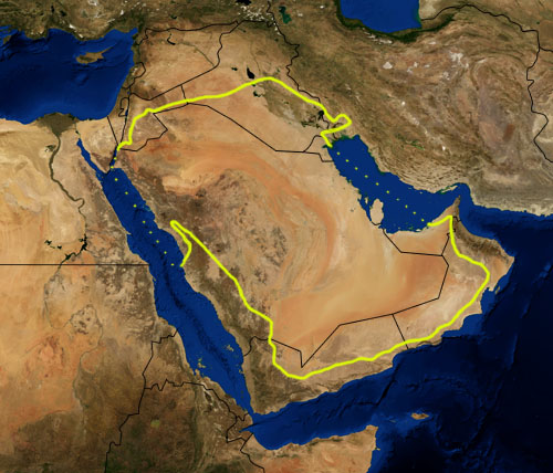 This is a map showing the location of the Arabian Desert. The yellow line encloses ecoregions as delineated by the World Wide Fund for Nature: the "Arabian Desert and East Sahero-Arabian xeric shrublands", and the "Arabian Gulf desert and semi-desert" (a narrow strip along the Persian Gulf coast), and the "Red Sea Nubo-Sindian tropical desert and semi-desert" (along the Red Sea and in patches throughout the Arabian peninsula). National boundaries are shown in black. I, Pfly, made it using NASA Blue Marble imagery and ecoregion GIS data which I simplified and digitized in Photoshop. WWF code PA1303